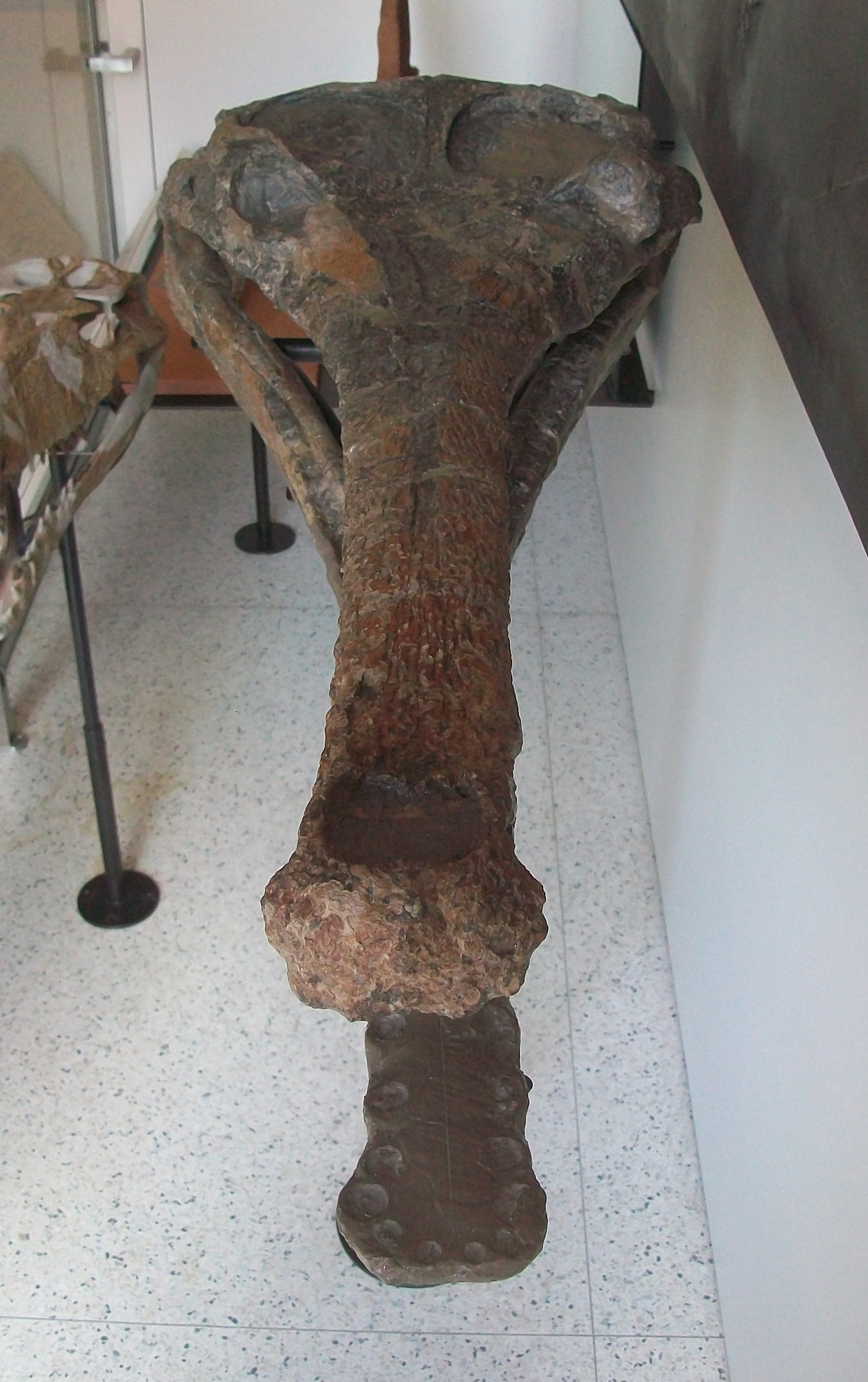 Front view of the skull of Teleorhinus robustus (specimen AMNH 5850) in the American Museum of Natural History.